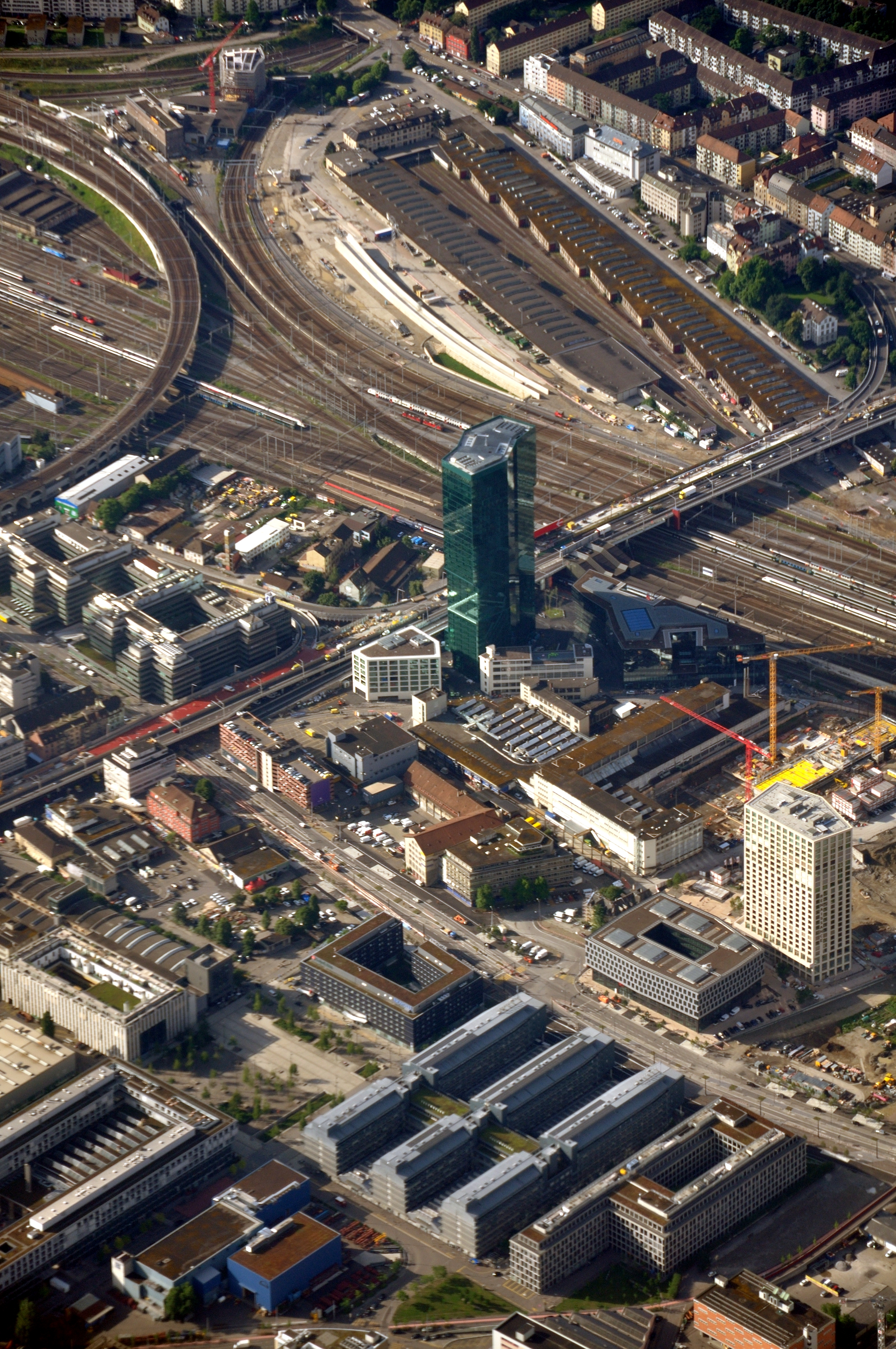 Switzerland, Canton of Zürich, view of Hardbrücke / Prime Tower while climbing out from runway 28 at Zurich International Airport in a wide left turn eastbound.